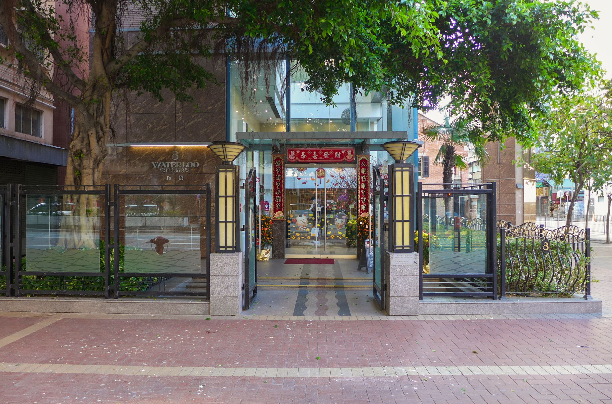 8 Waterloo Road Entrance